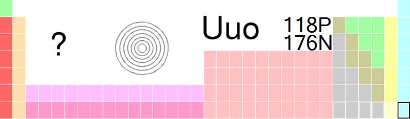 Uuo on the periodic table